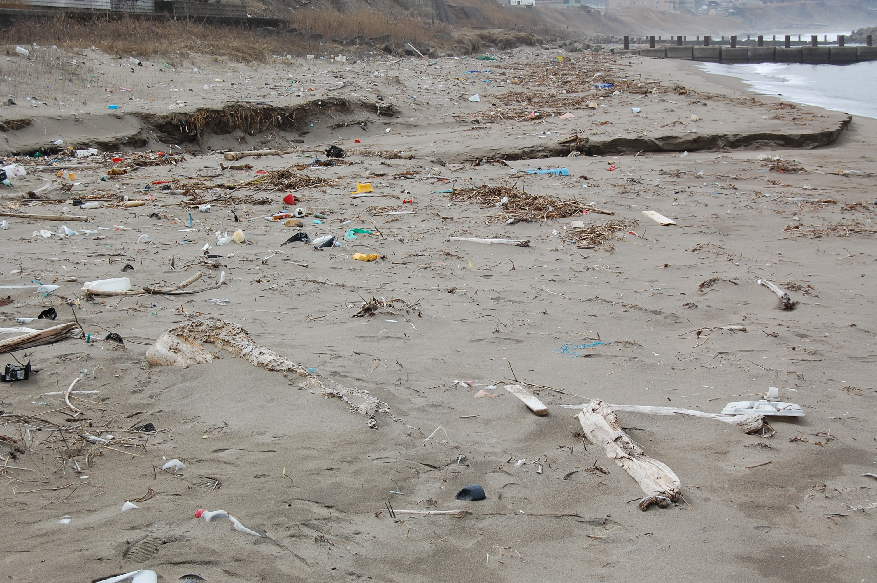 GOMI